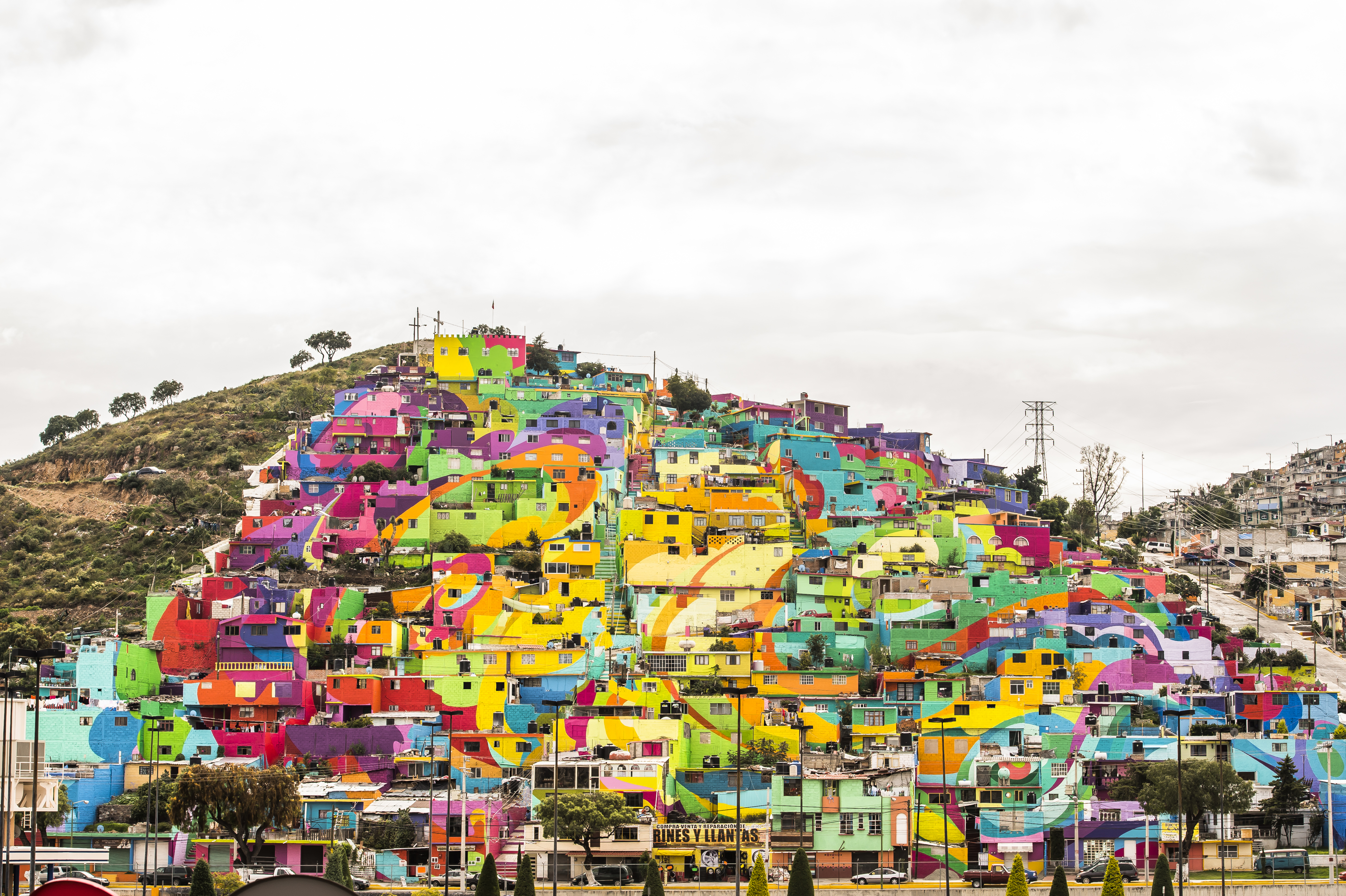 its better in colours